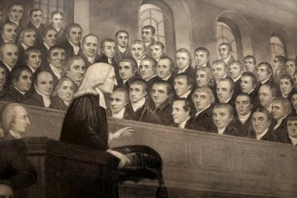 John Wesley preaching in the City Chapel. Engraving by T. Blood, 1822. Iconographic Collections Keywords: John Wesley; Charles Wesley